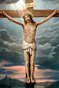 Christ on the Cross cropped. Crop of old Mass Card in my possession. Image used since mid-19th century. Immagine:Gesù Crocifisso.jpg Category:Artistic portrayals of Jesus